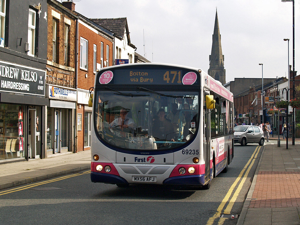 First Manchester's 69235 (MX56 AFJ), a 2006 Volvo B7RLE/Wright Eclipse Urban B43F body on Market Street, Heywood, Greater Manchester, England, on route 471 from Rochdale Bus Station to Bolton Bus Station via Sudden, Heywood, Bury and Breightmet.